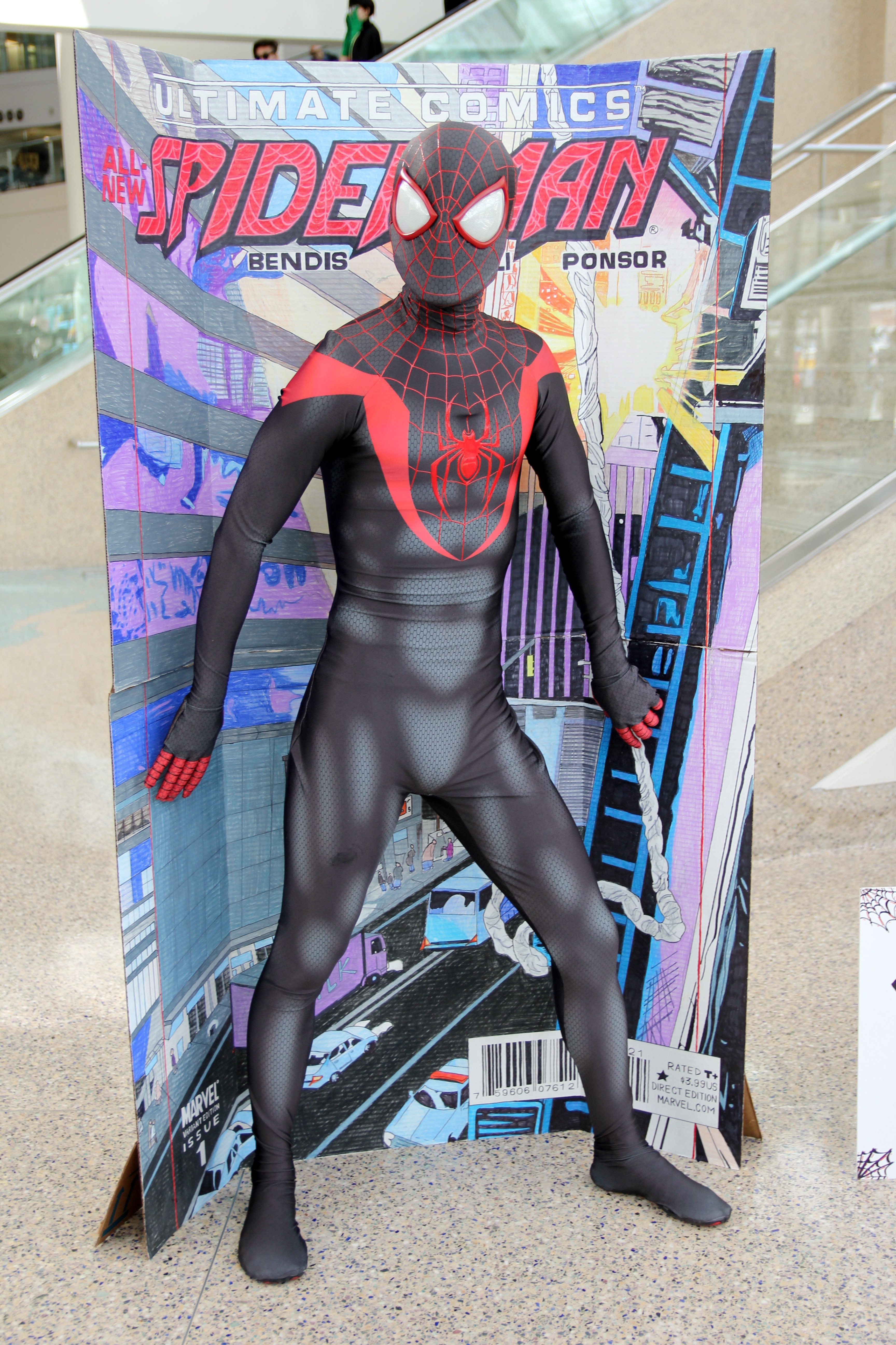 Luc Luzzo cosplaying as Spider-Man (Miles Morales), in front of an enlarged cover of the Ultimate Spider-Man comic, at Stan Lee's Comikaze 2014.